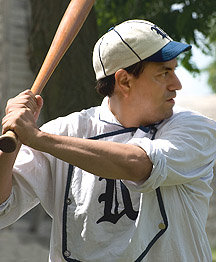 St.Louis Unions Vintage Base Ball Player